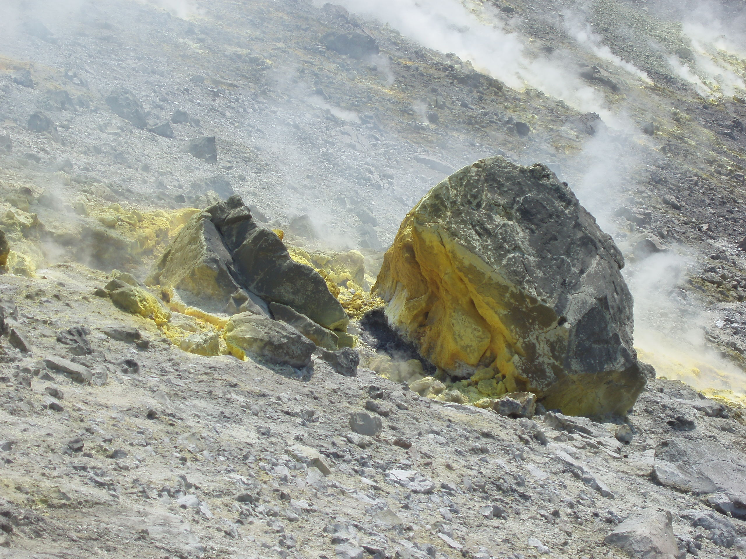 Sulfur on Vulcano Island